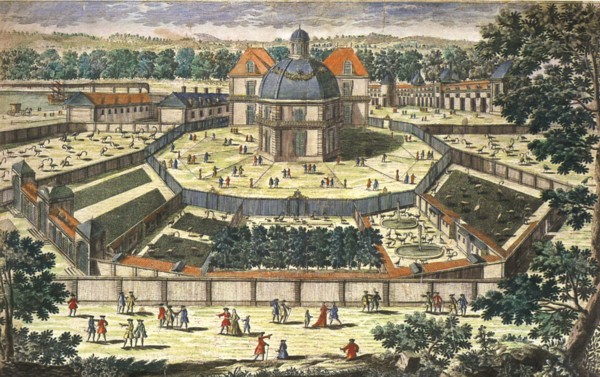 Backyard of the royal menagerie of Versailles during the reign of Louis XIV, 1643-1715.